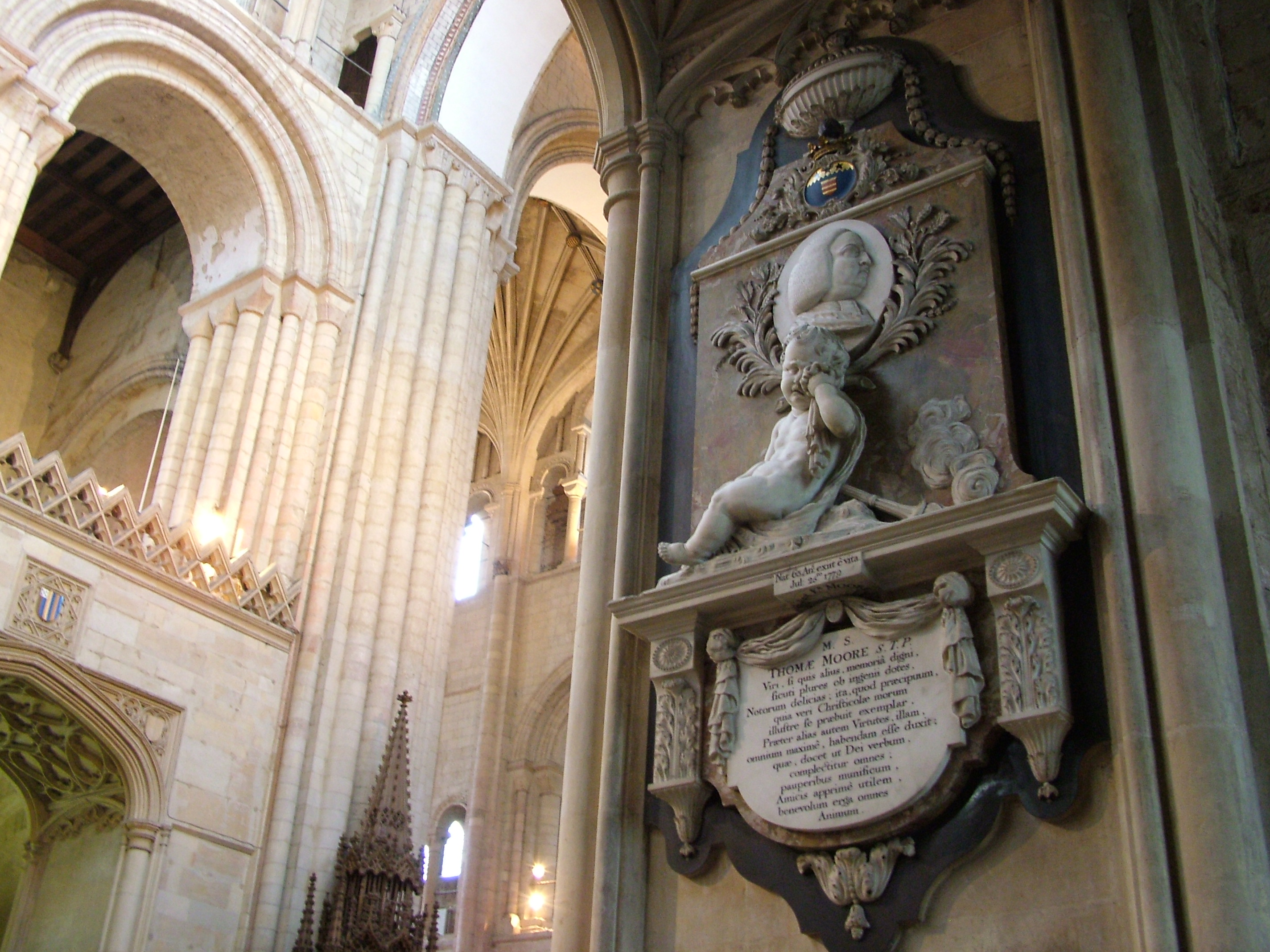 Norwich Cathedral